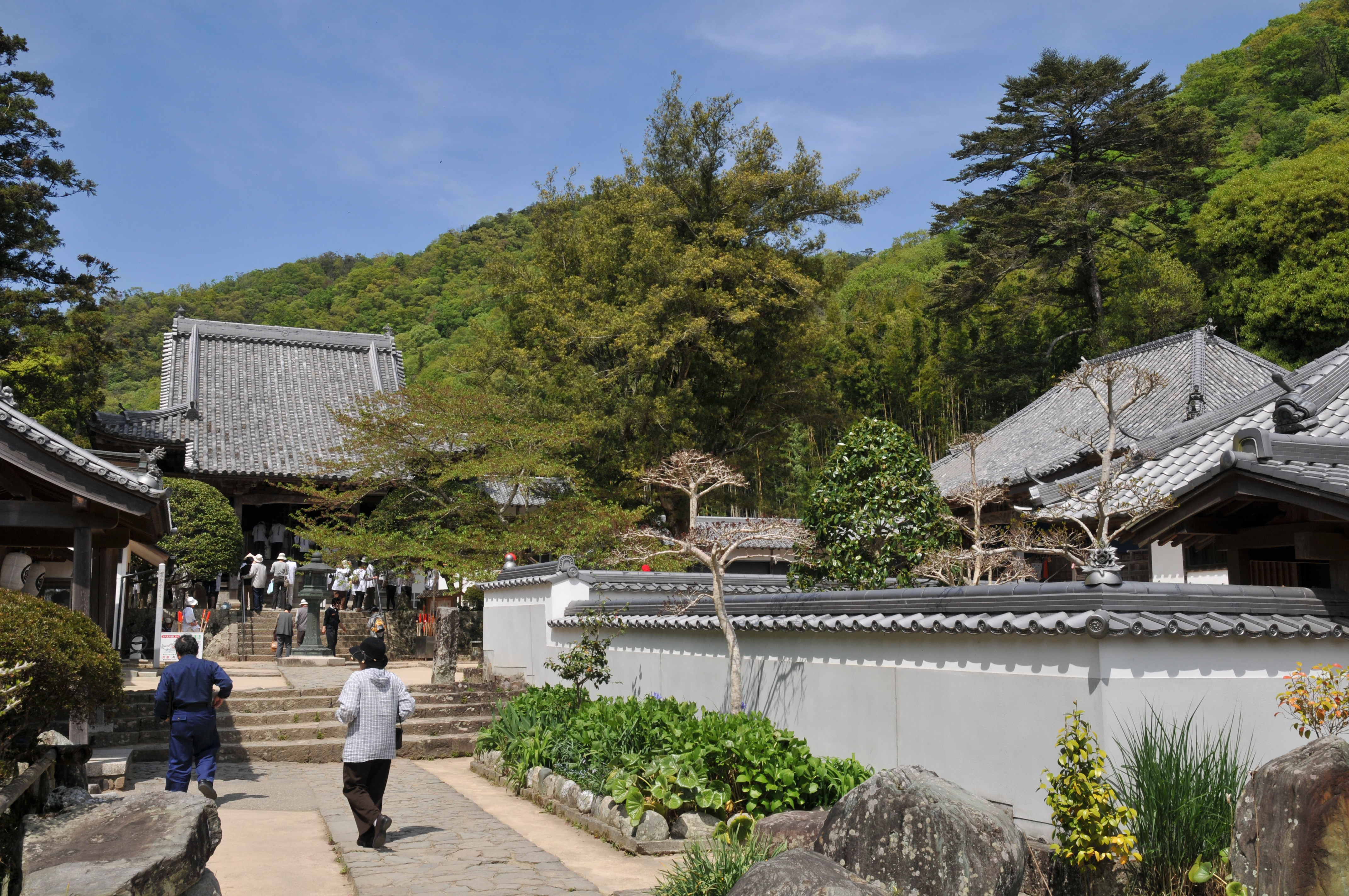 Dainichu-ji temple